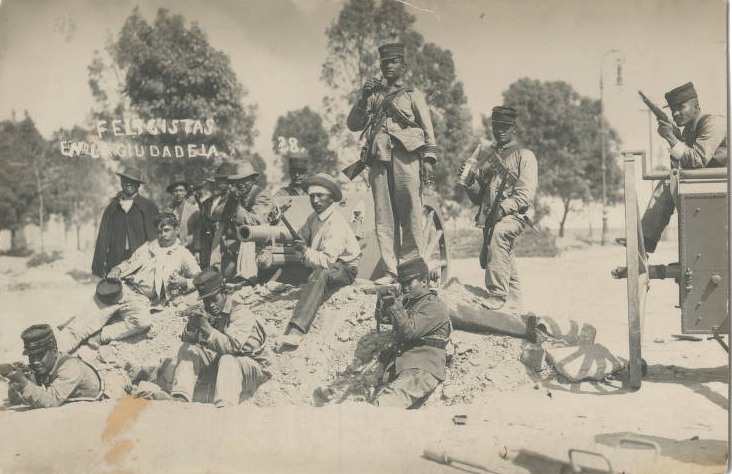 Title: Felicistas (Felix Diaz supporters) en la ciudadela Creator: Ramos, Manuel [attrib.] Date: 1913 Part Of: Manning Texas and Mexico collection Physical Description: 1 photographic print (postcard): gelatin silver Form/Genre: Photographs; Photographic prints; Postcards; Photographic postcards File: ag1981_0004_027c_felicistas_opt.jpg Rights: Please cite Southern Methodist University, Central University Libraries, DeGolyer Library when using this image file. A high-quality version of this file may be obtained for a fee by contacting . For more information, see: View Mexico: Photographs, Manuscripts, and Imprints at